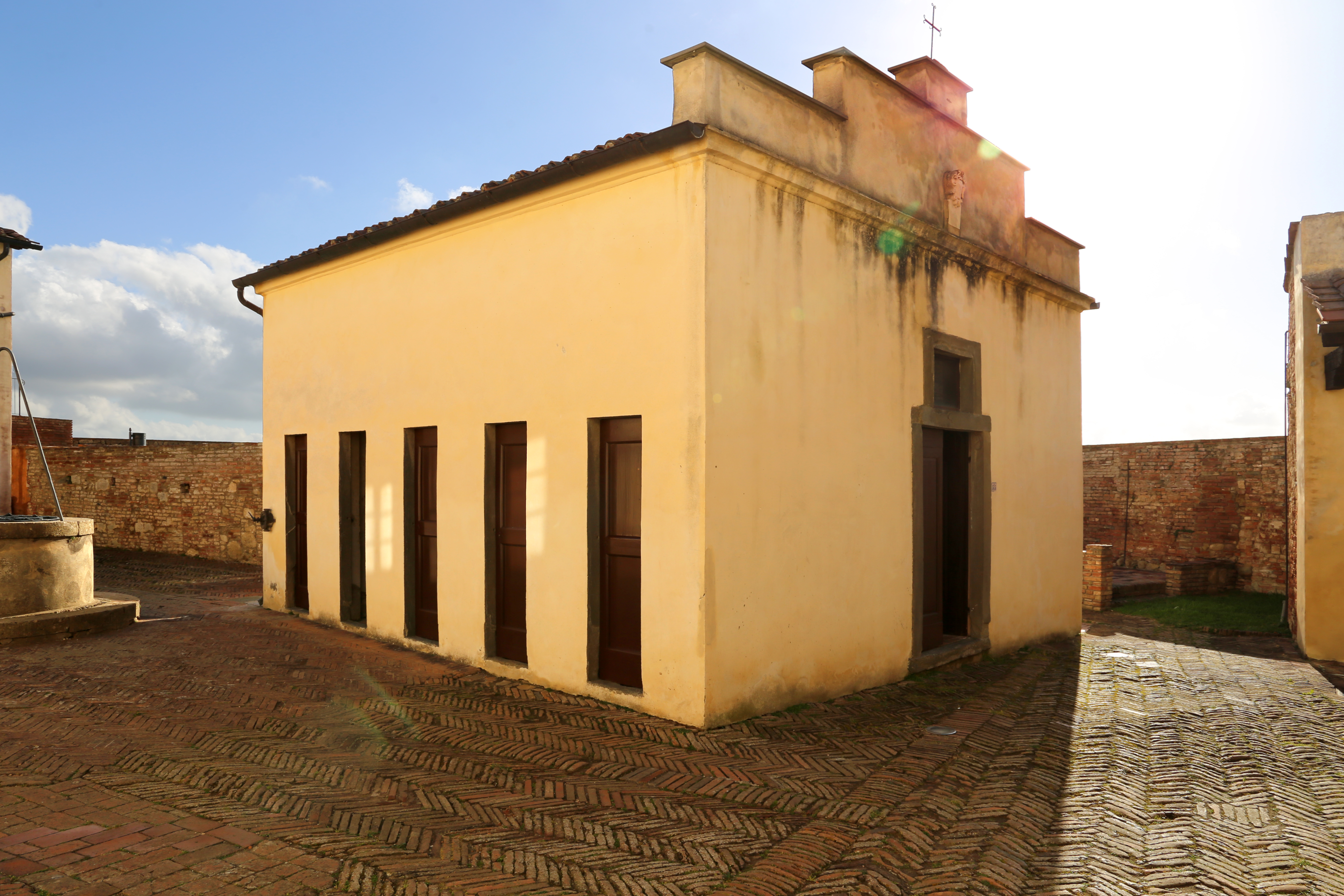 Castello dei Vicari